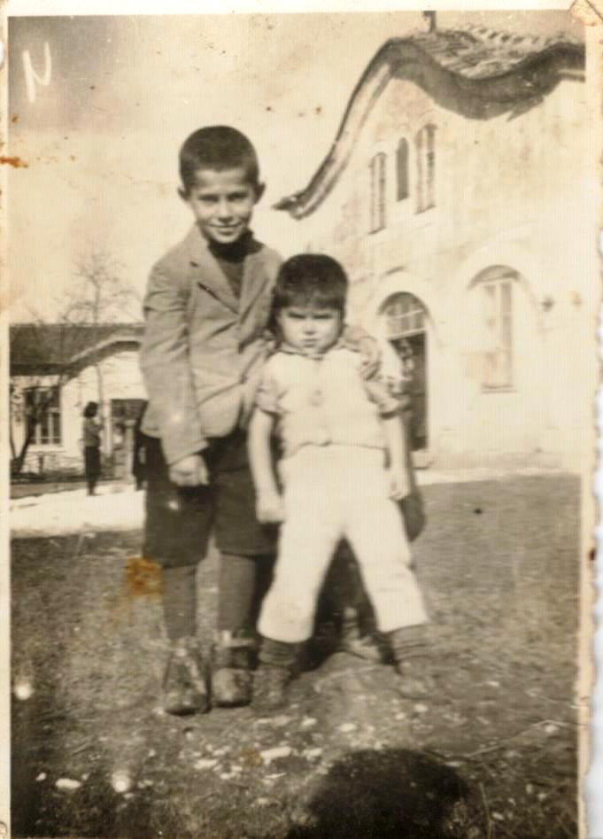 Rumen Yordanov (7 yo) and his brother Yordan (3 yo) before "Archangel Michael " village church in Yuper, Razgrad province. photo done by Angel Boev on 15 february 1952.